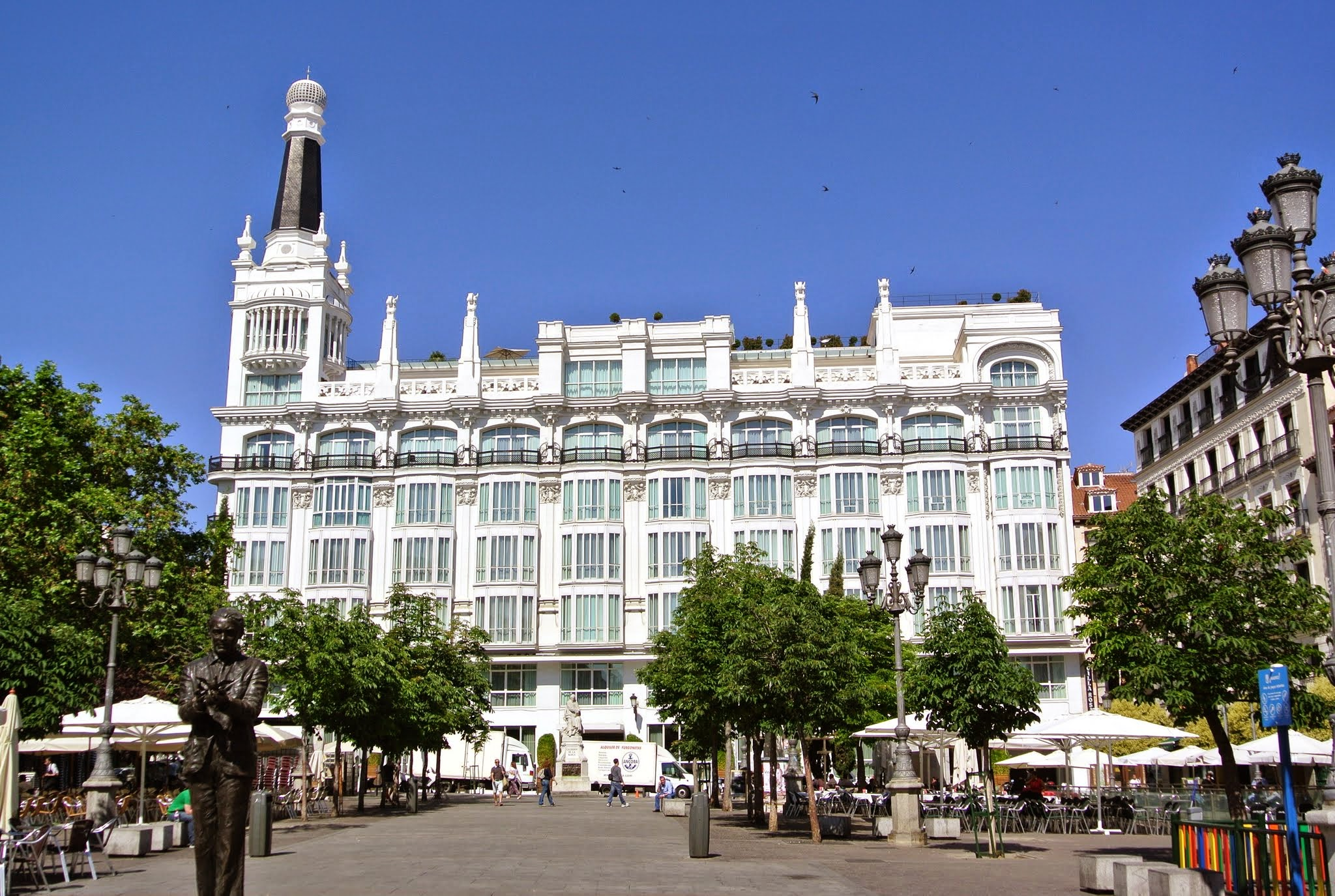 Cortes, Madrid, Spain